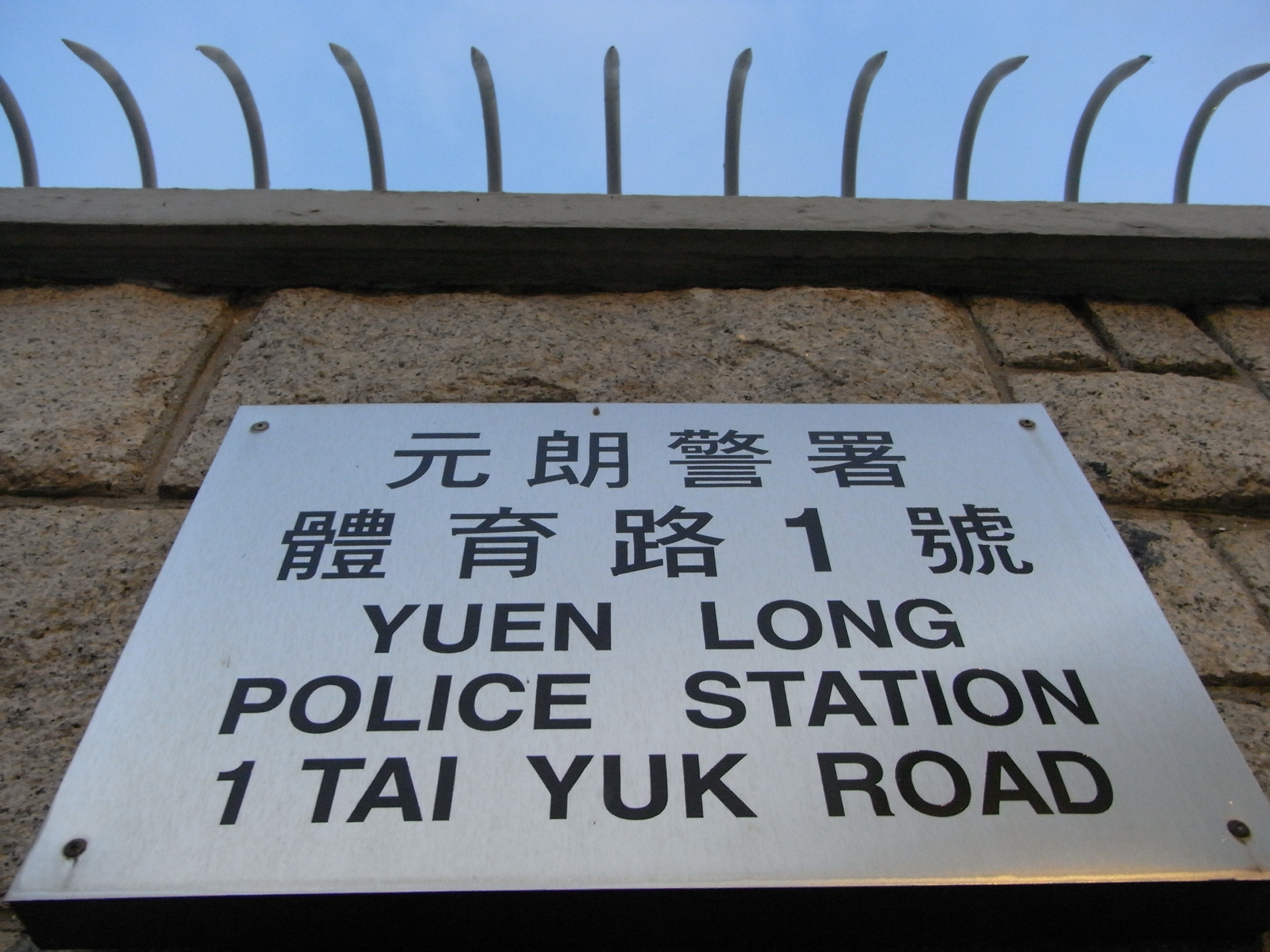 元朗 元朗警署 元朗體育路